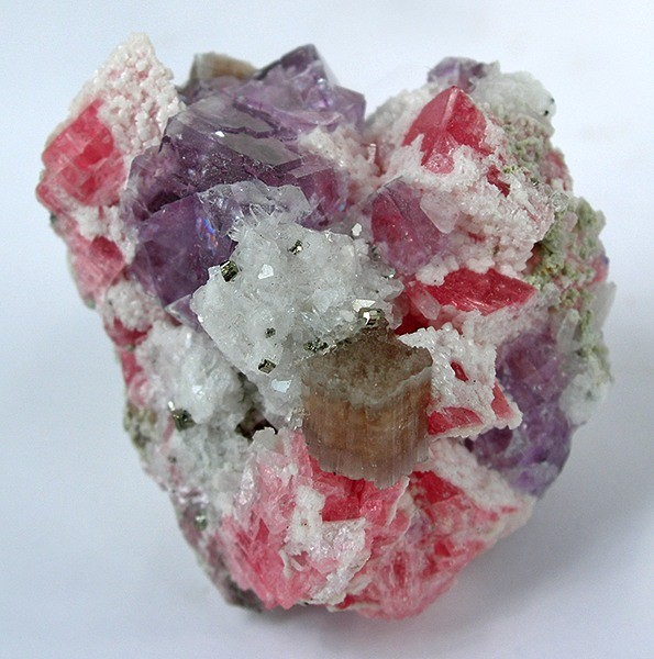 Apatite, Rhodochrosite, Fluorite, Quartz Locality: Wutong (Wudong) Mine, Liubao ("Babu"), Cangwu County, Wuzhou Prefecture, Guangxi Zhuang Autonomous Region, China (Locality at ) Size: 3.6 x 3.4 x 2.9 cm. A UNIQUE and showy combination specimen from recent finds at the Wudong Mine of China. A gemmy and lustrous, 8 mm, bi-colored, tan and colorless, apatite crystal sits front and center on cherry-red rhodochroite rhombs, purple fluorite cubes, quartz and a dusting of brass-yellow pyrite cubes. Certainly an unusual and rare specimen from this up and coming locality.